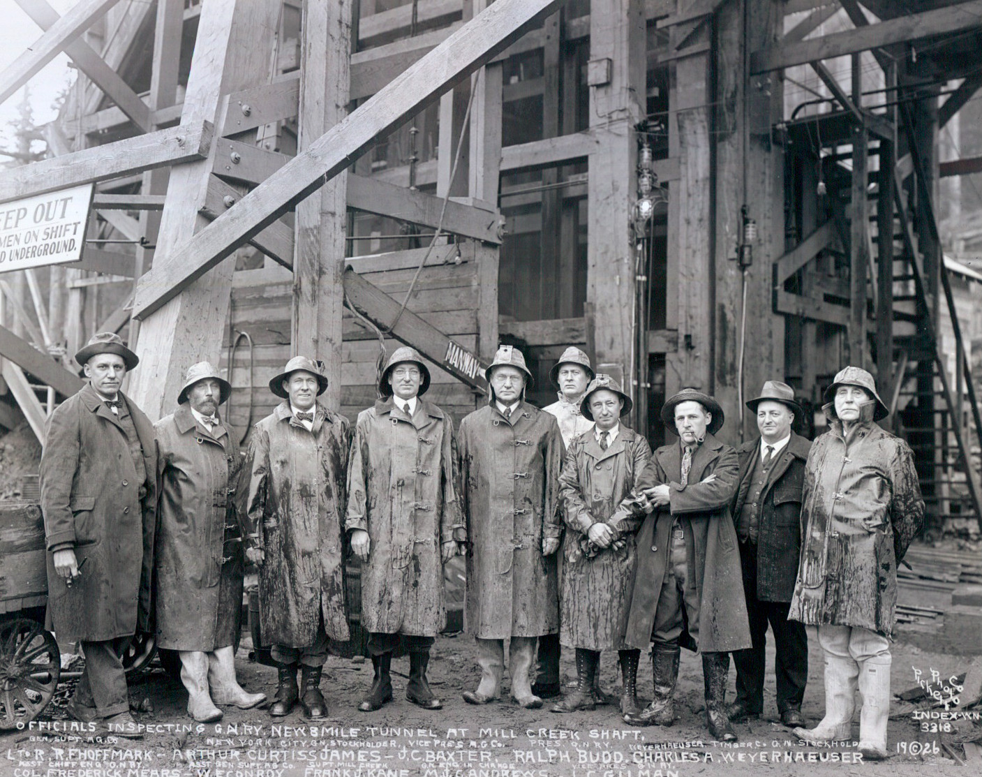 Photo of Great Northern officials at the Mill Creek shaft of the Cascade Tunnel in Index, Washington.[1] The structure behind them leads to the "pioneer tunnel"; the tunnel was not completed until late 1928-early 1929. Great Northern president Ralph Budd is fourth from the photo's left. Because of the 1926 copyright notation, a search for any renewal was done for 1953 and 1954 with the emphasis being on Lee Pickett, Pickett Photo Company (his company) and Great Northern Railway (his employer for the photos). No information was found with regard to any copyright renewal.